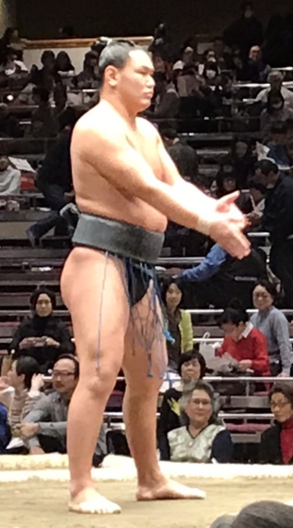 Taken at sumo venue Jan 2019